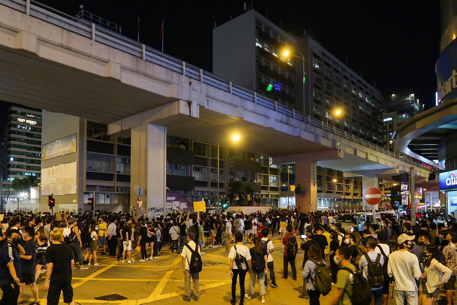 Protest outside Prince Edward Station Exit B1